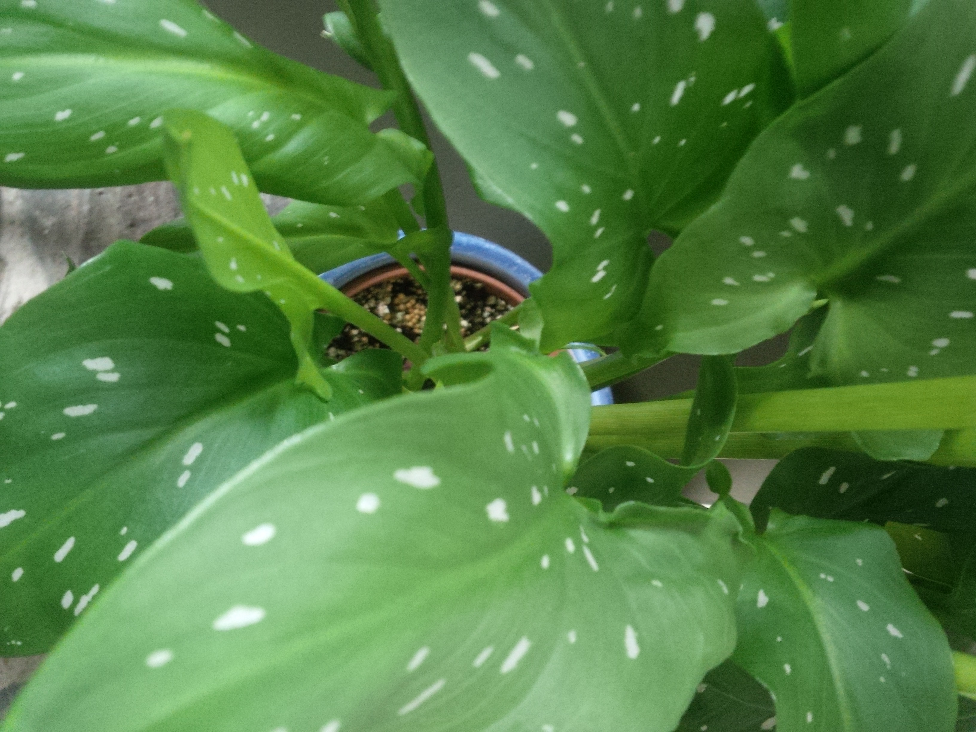 Leaves of Zantedeschia ellotiana x maculata 'Lemon Drop' showing maculation